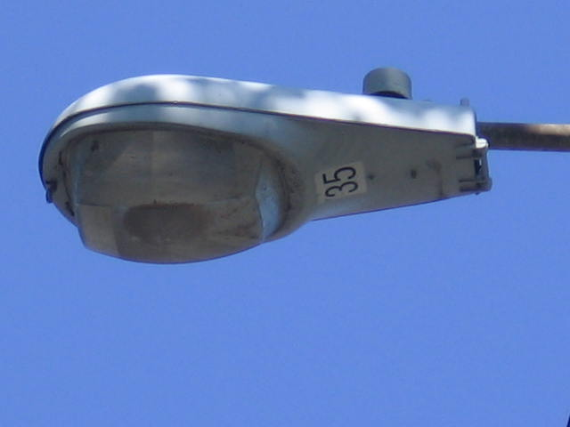 History of street lighting - Thomas & Betts, Model 113, Rare 35 watt version found in Canton, Massachusetts